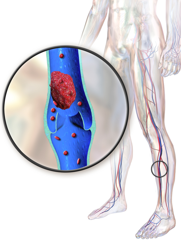 Deep Vein Thrombosis. See a related animation of this medical topic.